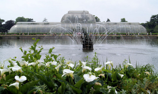 Palm house and fountain with lilies in foreground. Designed and built of iron and glass by Decimus Burton between 1844-48, the Palm House was the largest greenhouse structure in the world at that time. see link Decimus_Burton